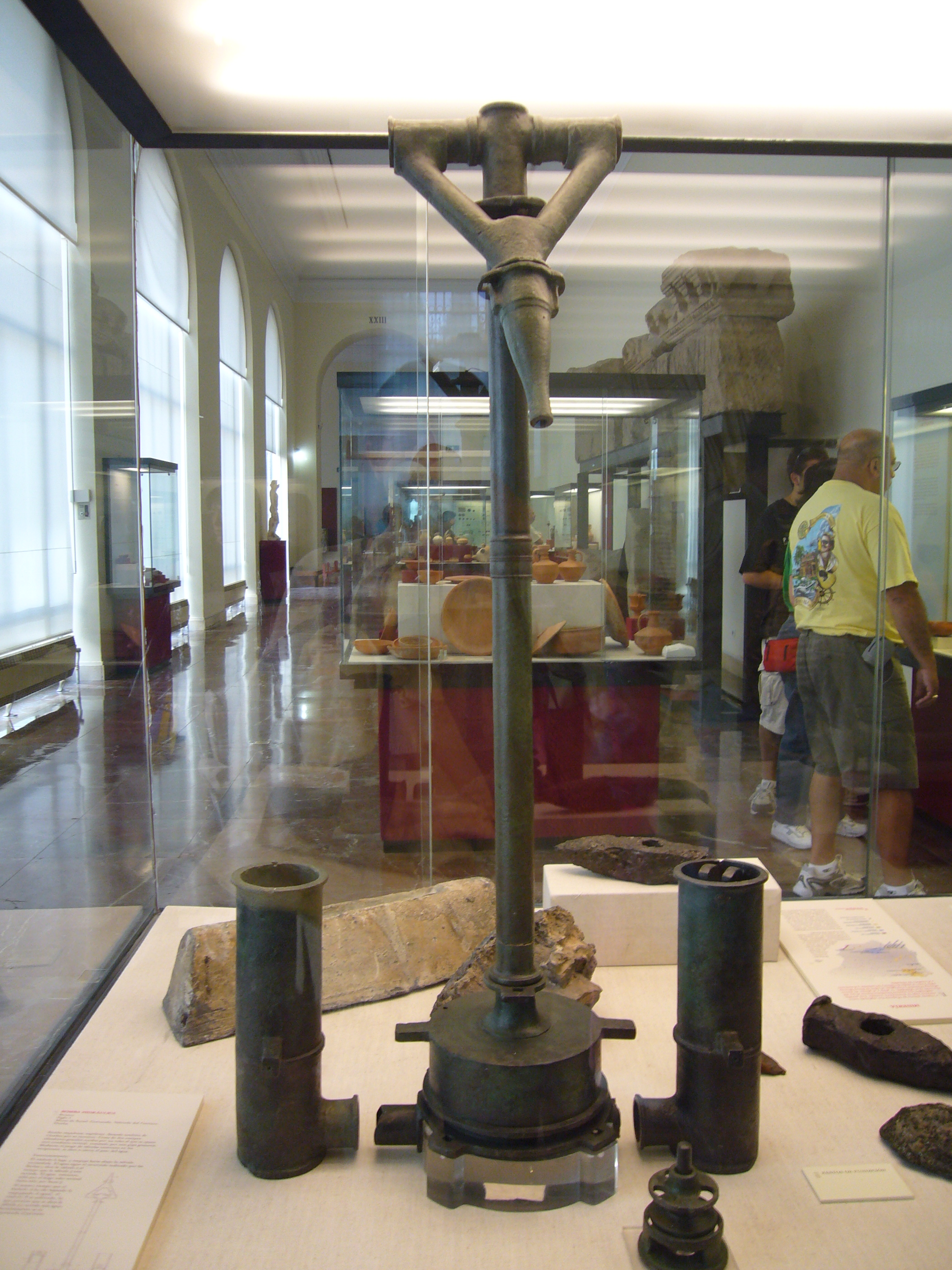 A Roman hydraulic pump.